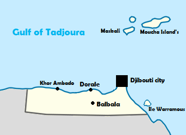 DjiboutiRegionMap